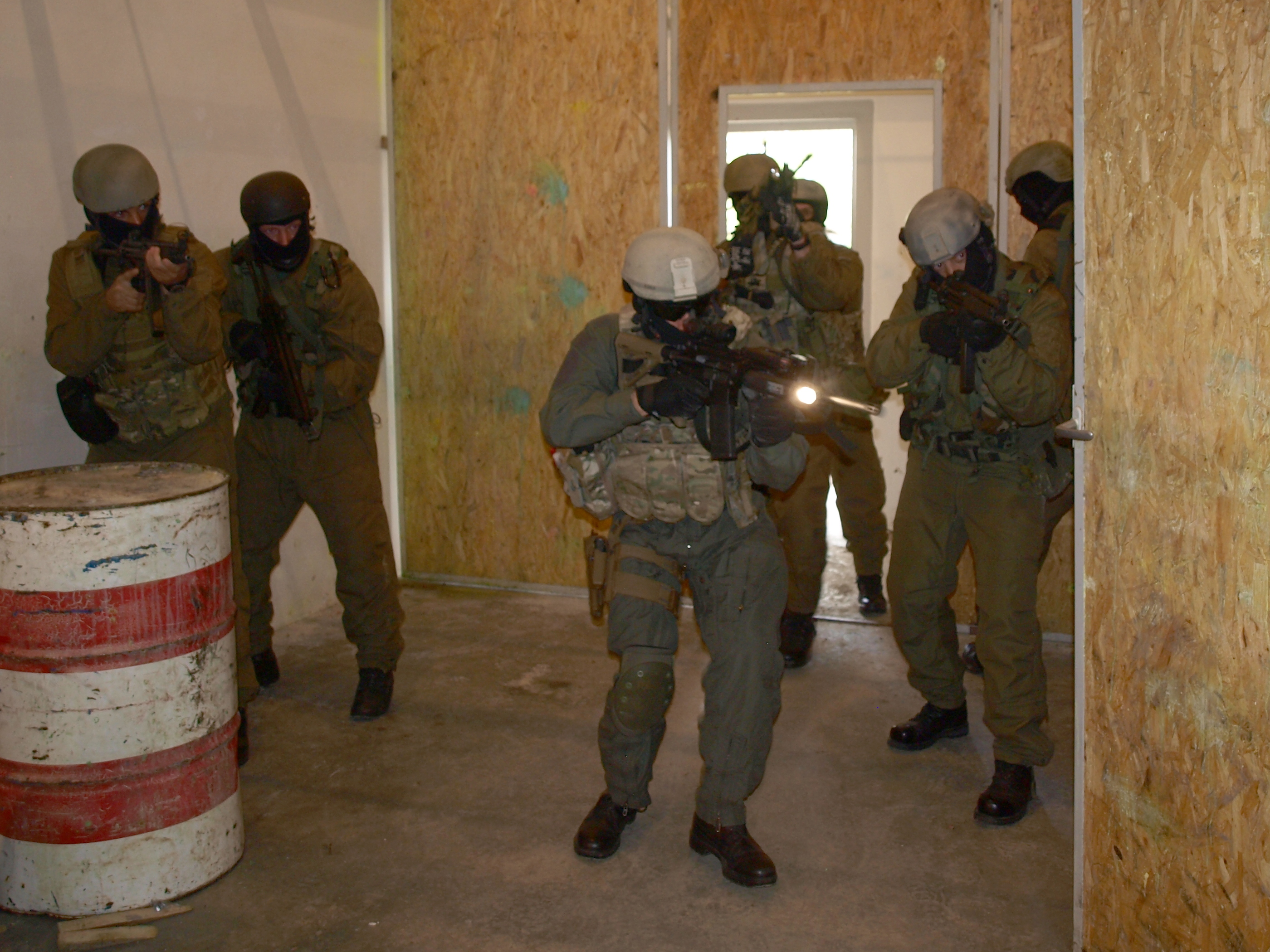 Operators of Hungarian Army's KMZ enters a room while attacking the unit's killing house. Note that the first attackers have taken the room's two corners closest to the entry point at first, while second group continues the attack towards the next room.